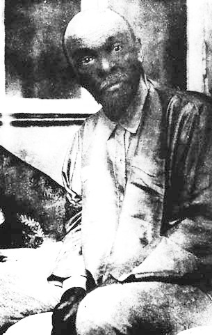 Lenin in 1923